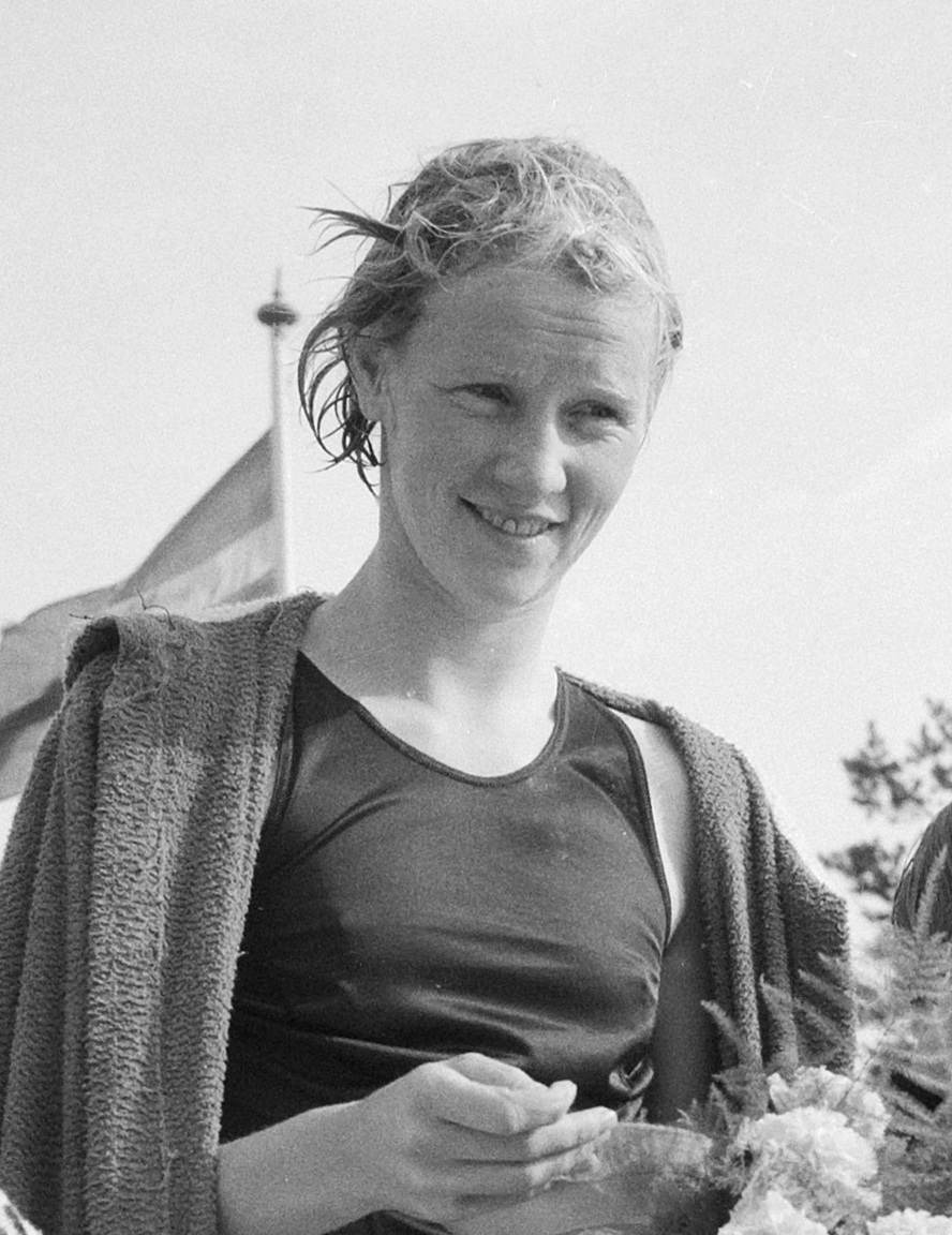 Nederlands kampioenschap zwemmen 1500m in het Bosbad te Ermelo, Corrie Schimmel (1e).